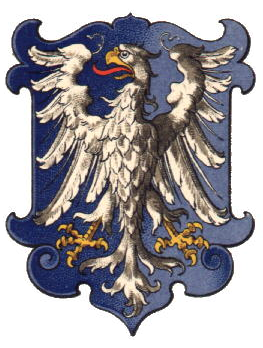 Coat of arms of Duchy of Zator